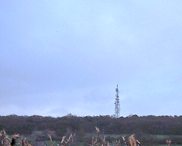 The Storeton TV transmitter, Wirral, England, as it was in December 2001, taken from afar. (Relay transmitter of Winter Hill)